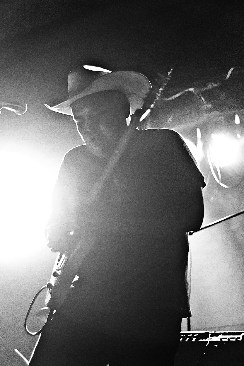 Travis Friday, lead guitarist, lead vocalist and the songwriter for the Navajo country band "Stateline." Image taken at Nakai Hall in Window Rock, AZ.